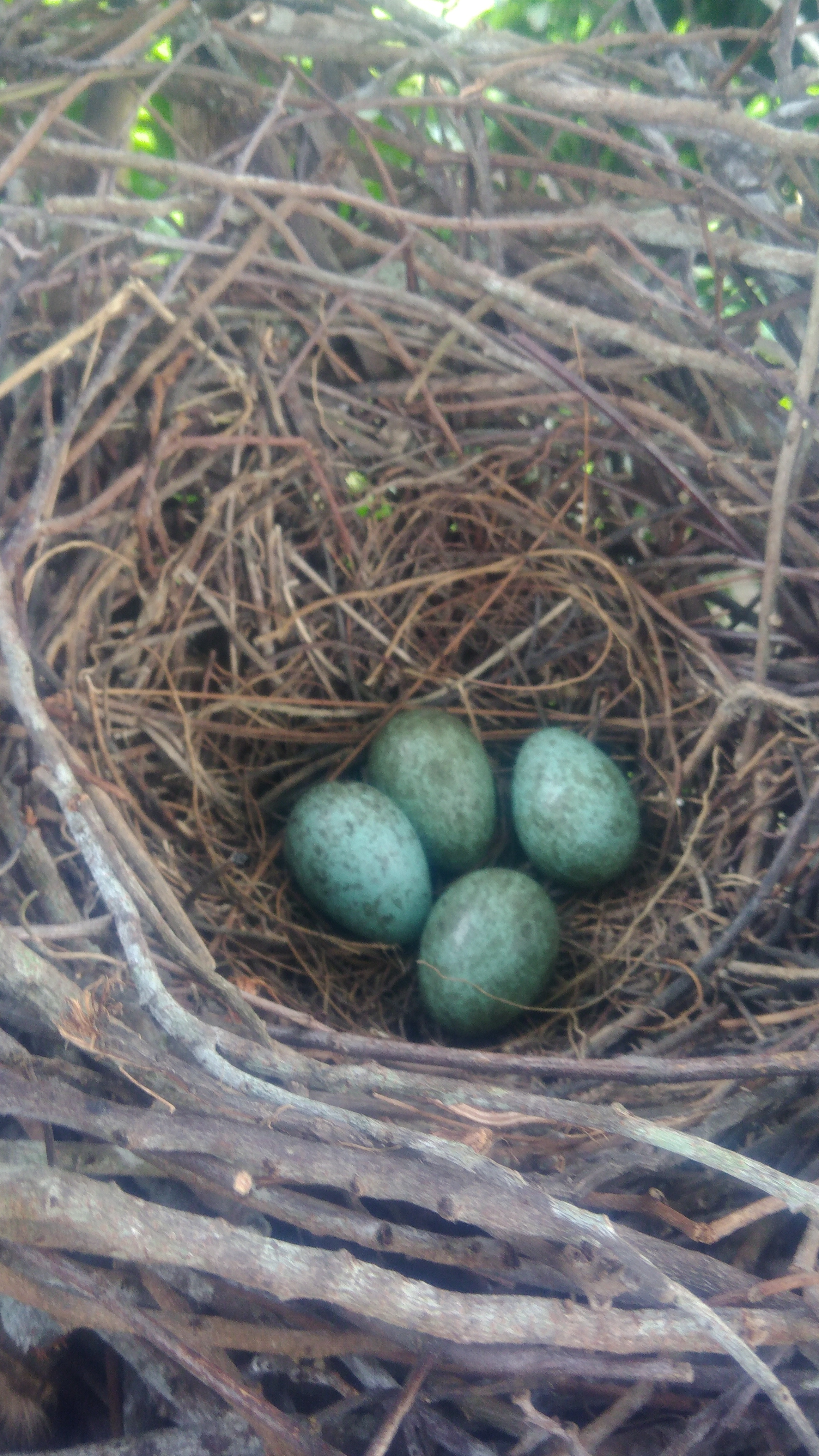 Nest and clutch of a Large-billed crow in the Philippines. They usually nest very high up in a tree, but this particular nest was only 8 meters from the ground. It was found at Basak, Lebak, Sultan Kudarat, Philippines, on the farm of the Wikipedia User.